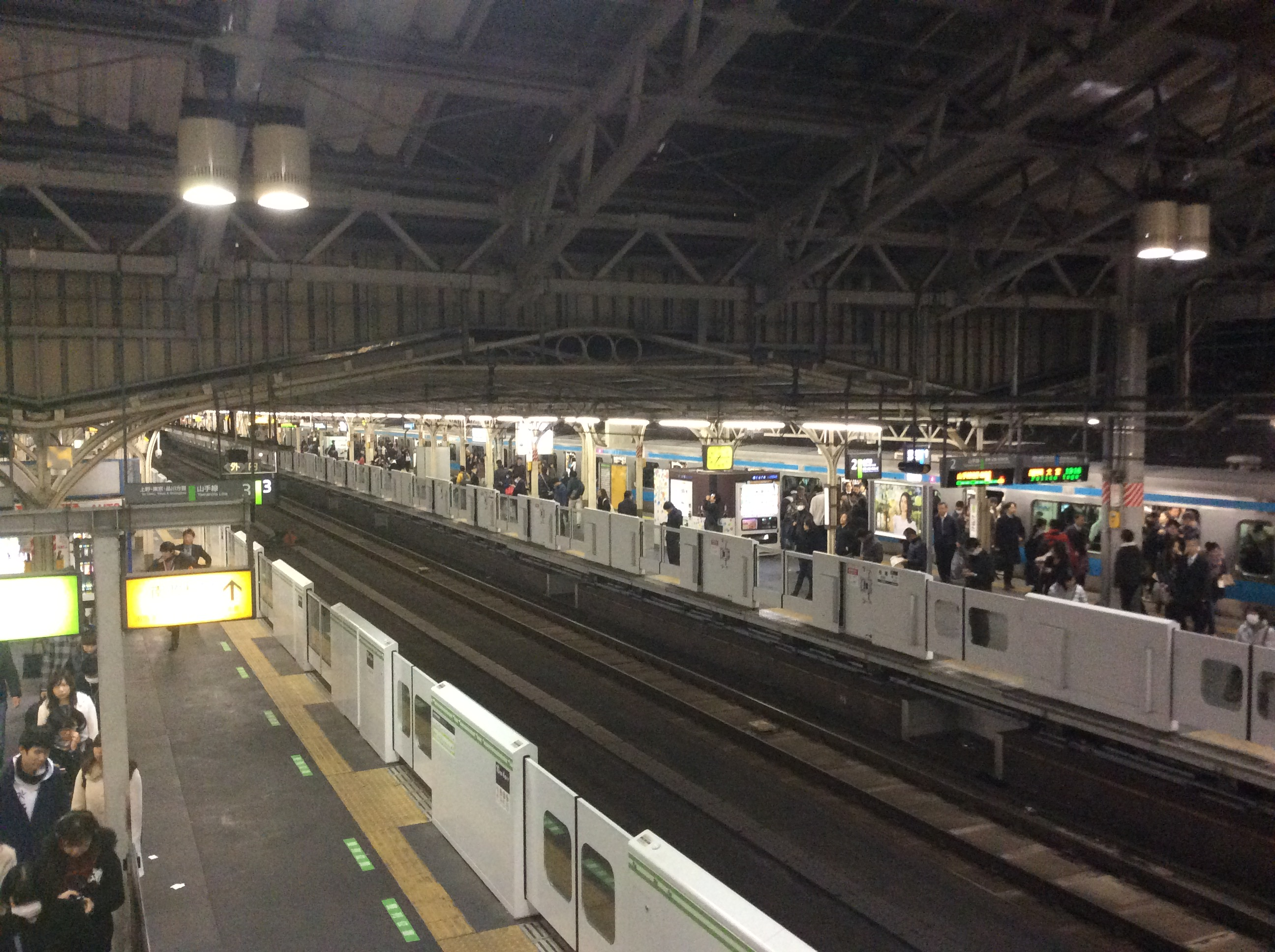 Tabata Station platforms